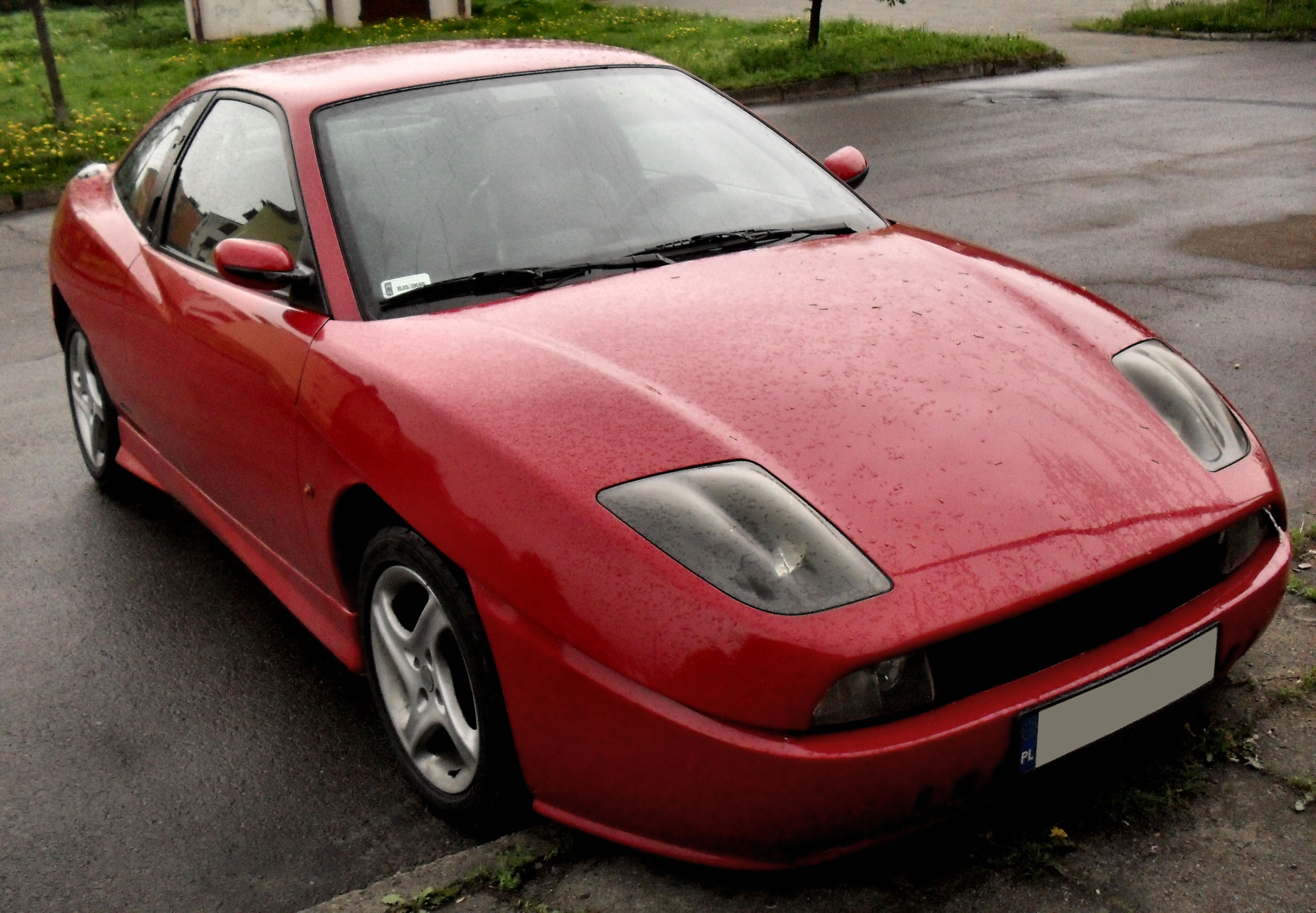 Fiat Coupe car seen in Jasło, Poland.